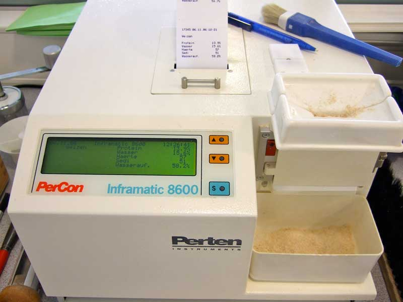 Inframatic: Grain and flour analyzer